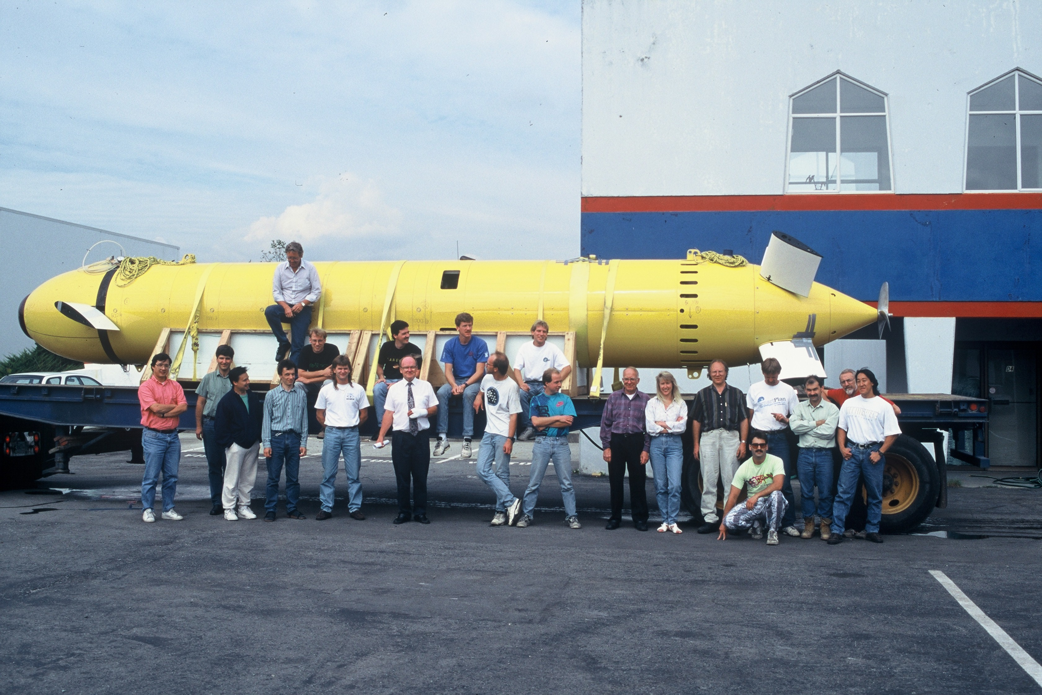 Theseus before leaving ISE for its first sea trials.